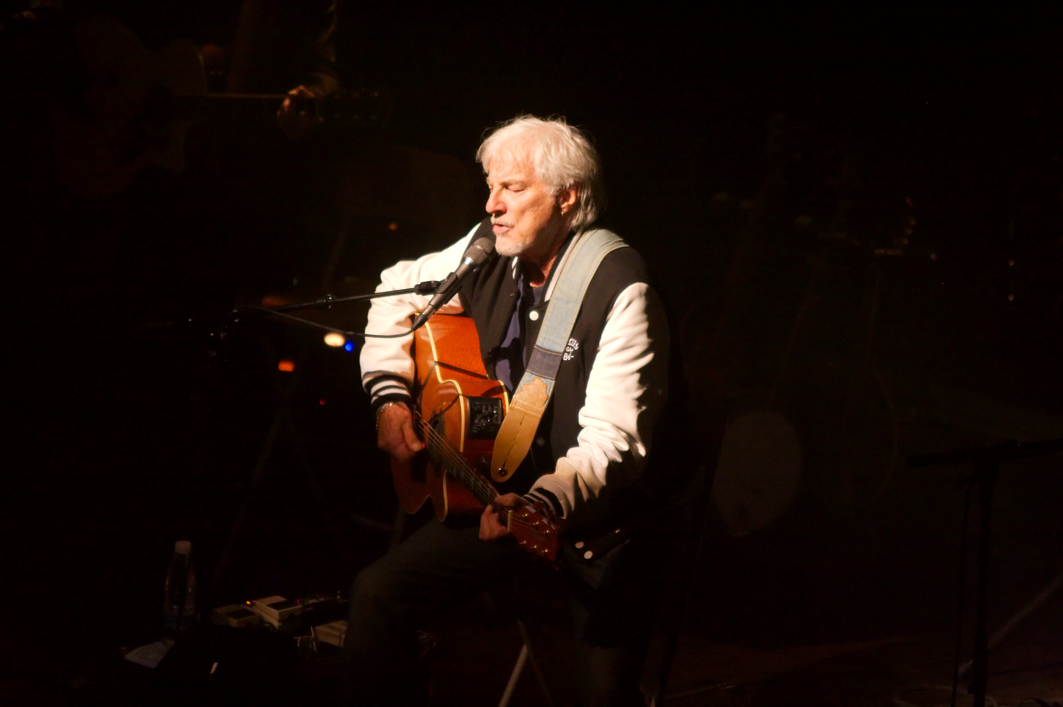 Hugues Aufray live at Aix-en-Provence (France) for the French song festival 2009.